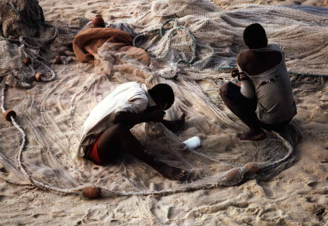 Fishermen repairing their nets in Beira, Mozambique.Mozambique 6